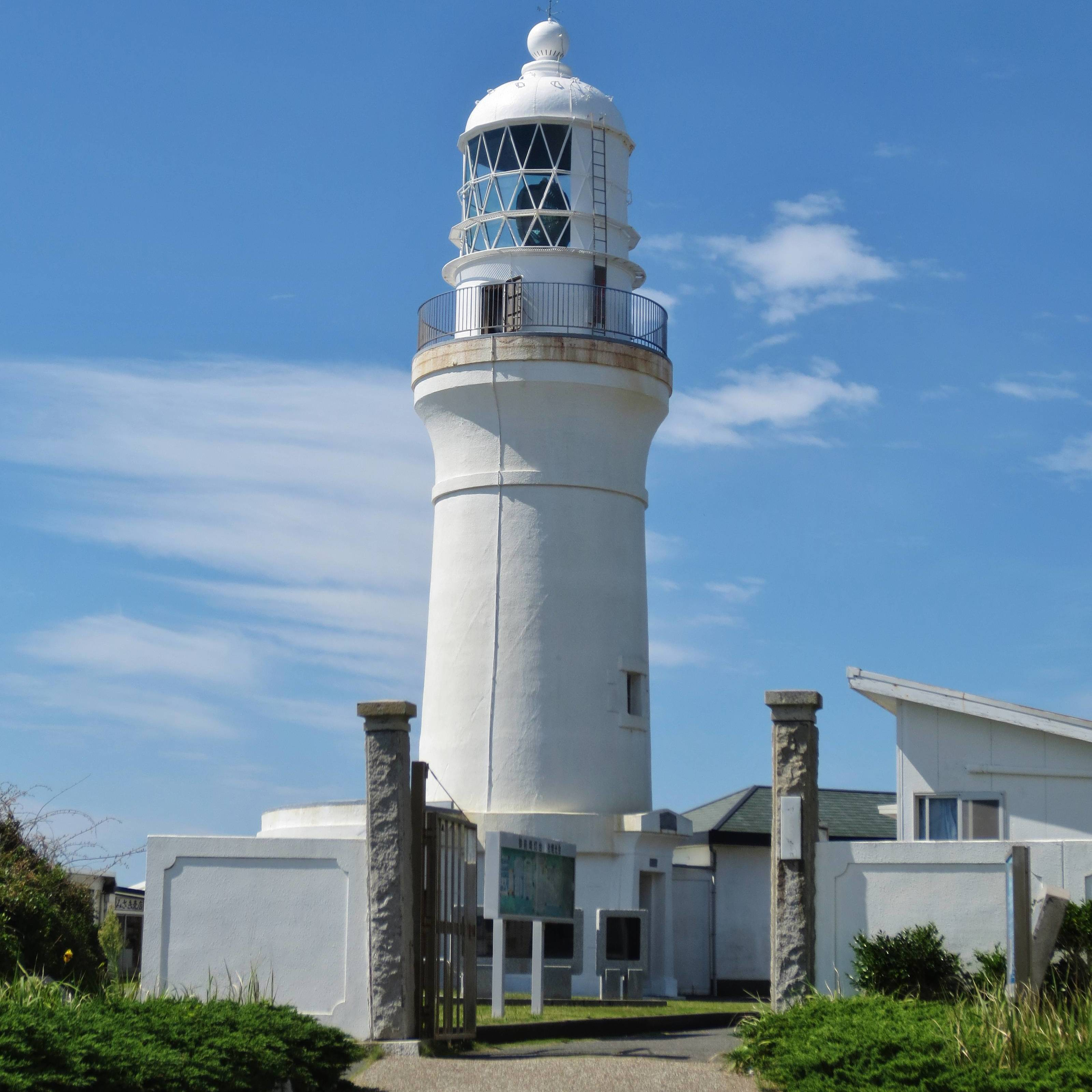 Omaezaki Lighthouse.